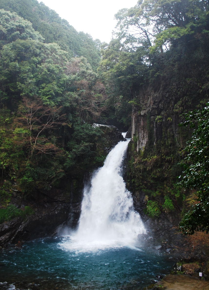 Odaru Falls of Kawazu-nanadaru in Kawazu, Shizuoka Prefecture, Japan.